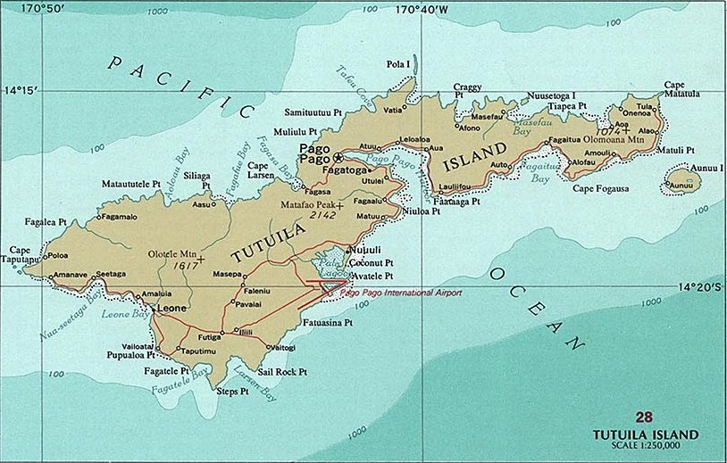 National Atlas of the United States, page "Pacific Outlying Areas", with map insets: Tutuila Island